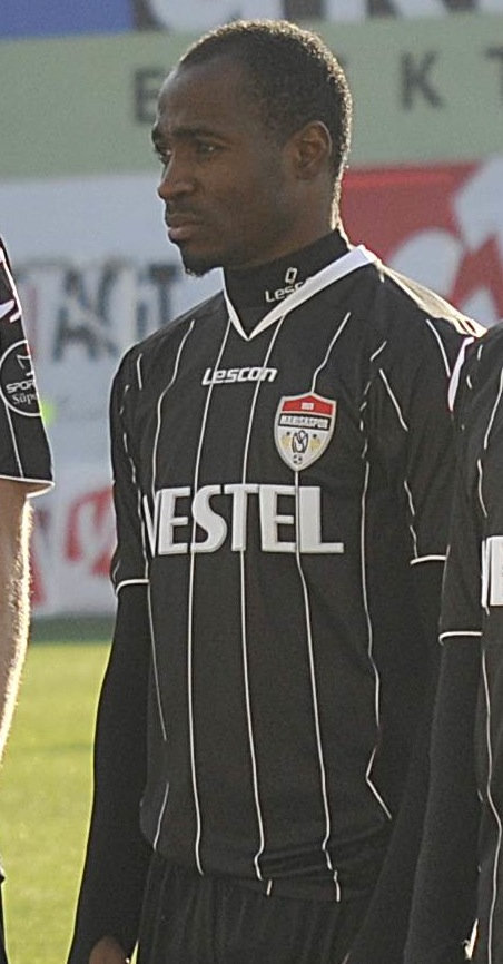 Photo : Koray Geçgel - Murat Özgen